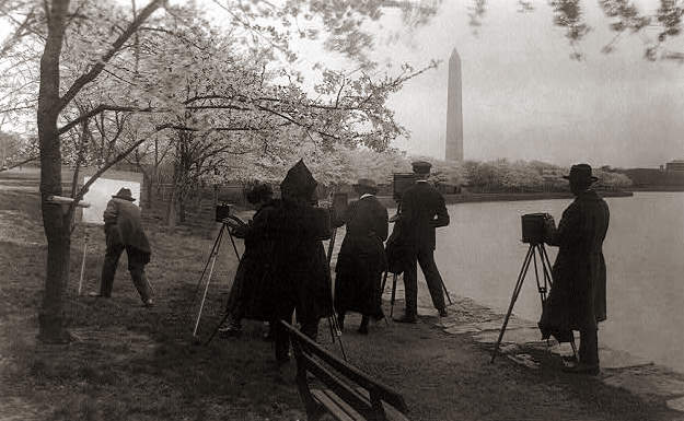 Man with easel and group of photographers at the Tidal Basin facing the Washington Monument in the background, with cherry trees in blossom, Washington, D.C.